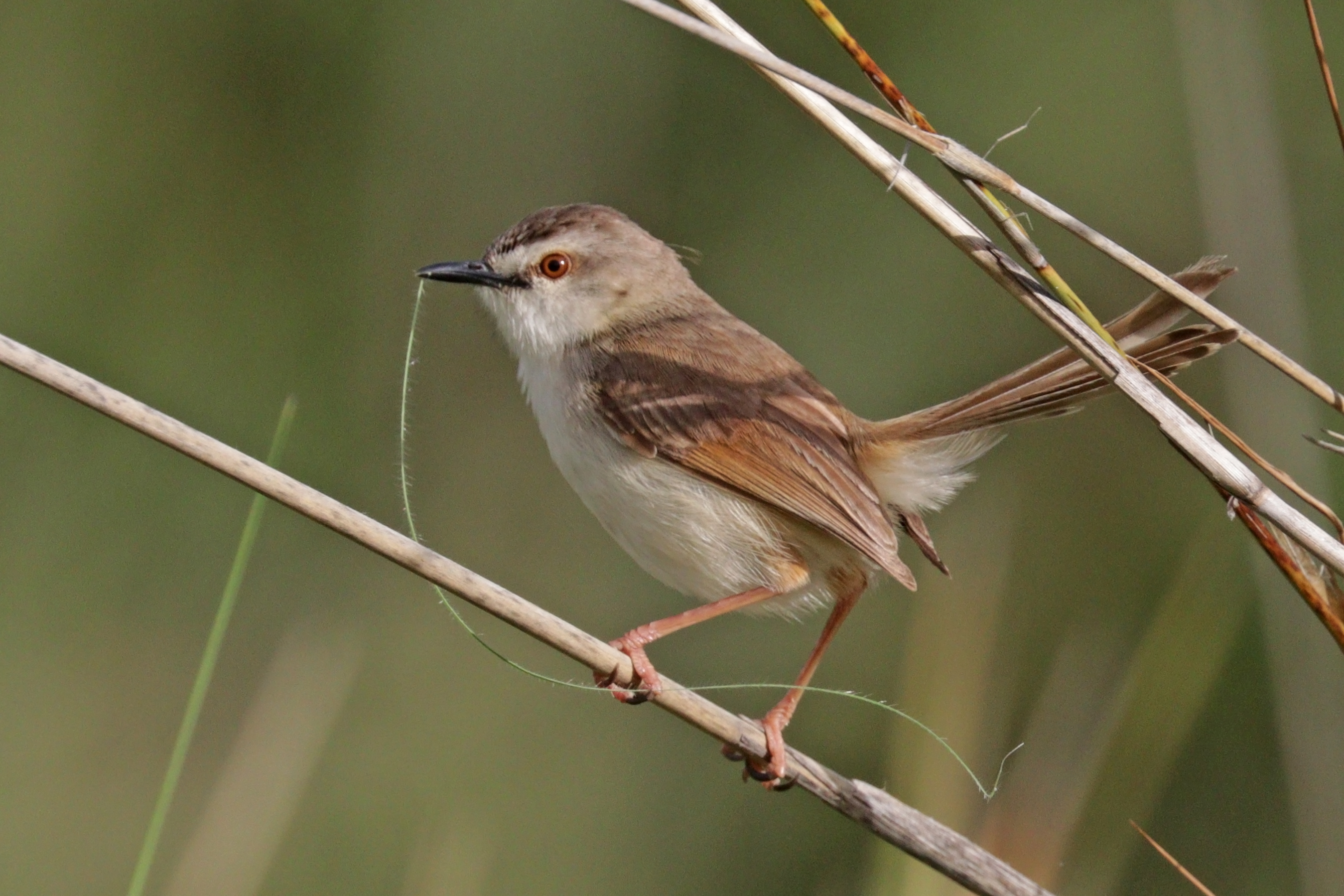 Tawny-flanked prinia (Prinia subflava bechuanae), Divava, Namibia